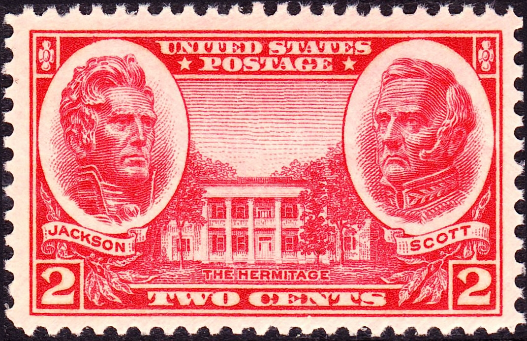 Jackson_Scott_1937_Issue-2c.jpg